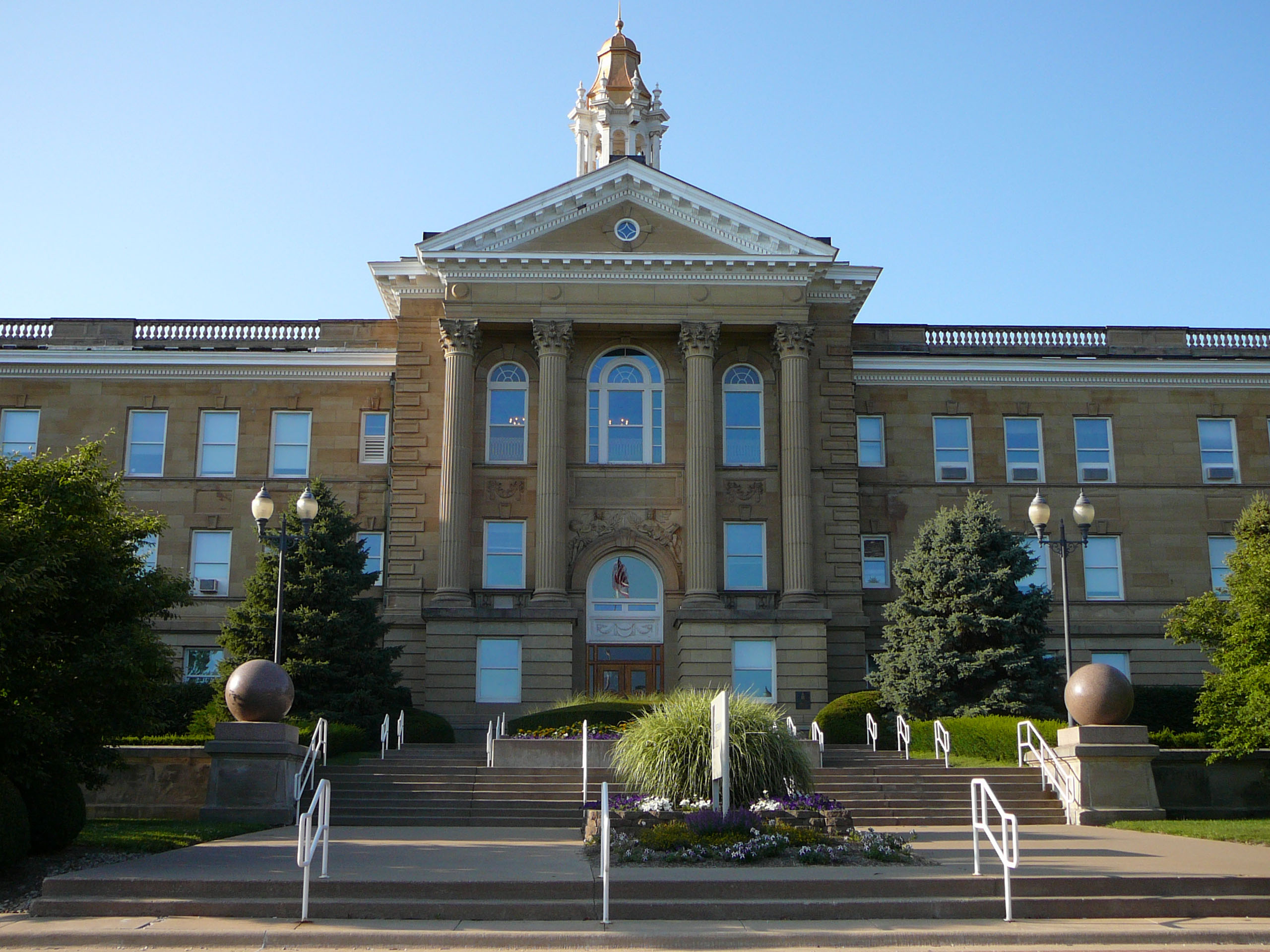 A photo of the WIU main building, Sherman Hall, in Macomb, Illinois